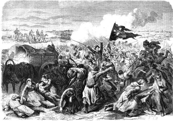 Skirmish of Polish and Russian troops in Kowel, Wohlynia 1863